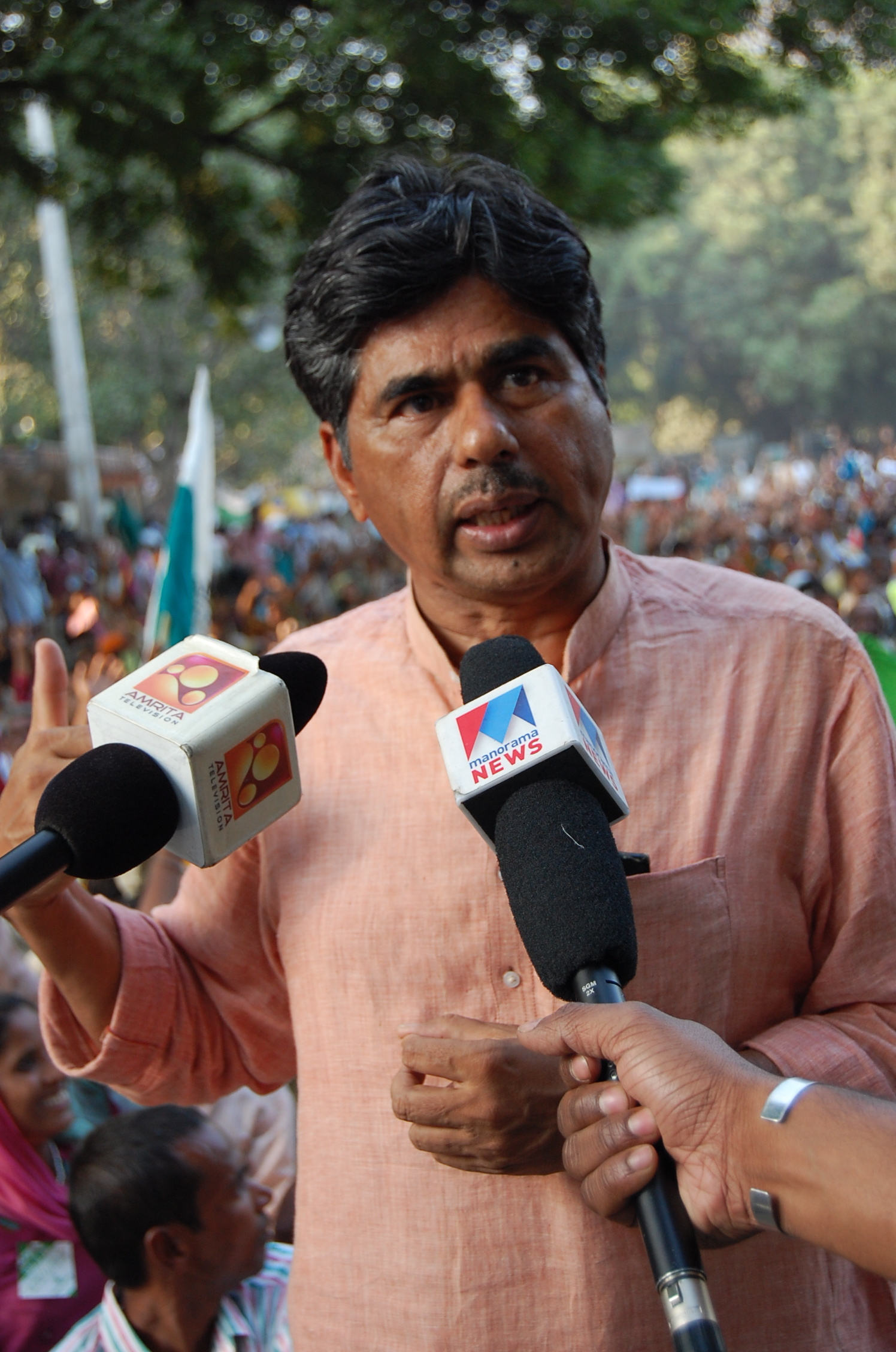 Rajagopal on Ramlila Maidan in Delhi, at the end of the big walk Janadesh 2007.